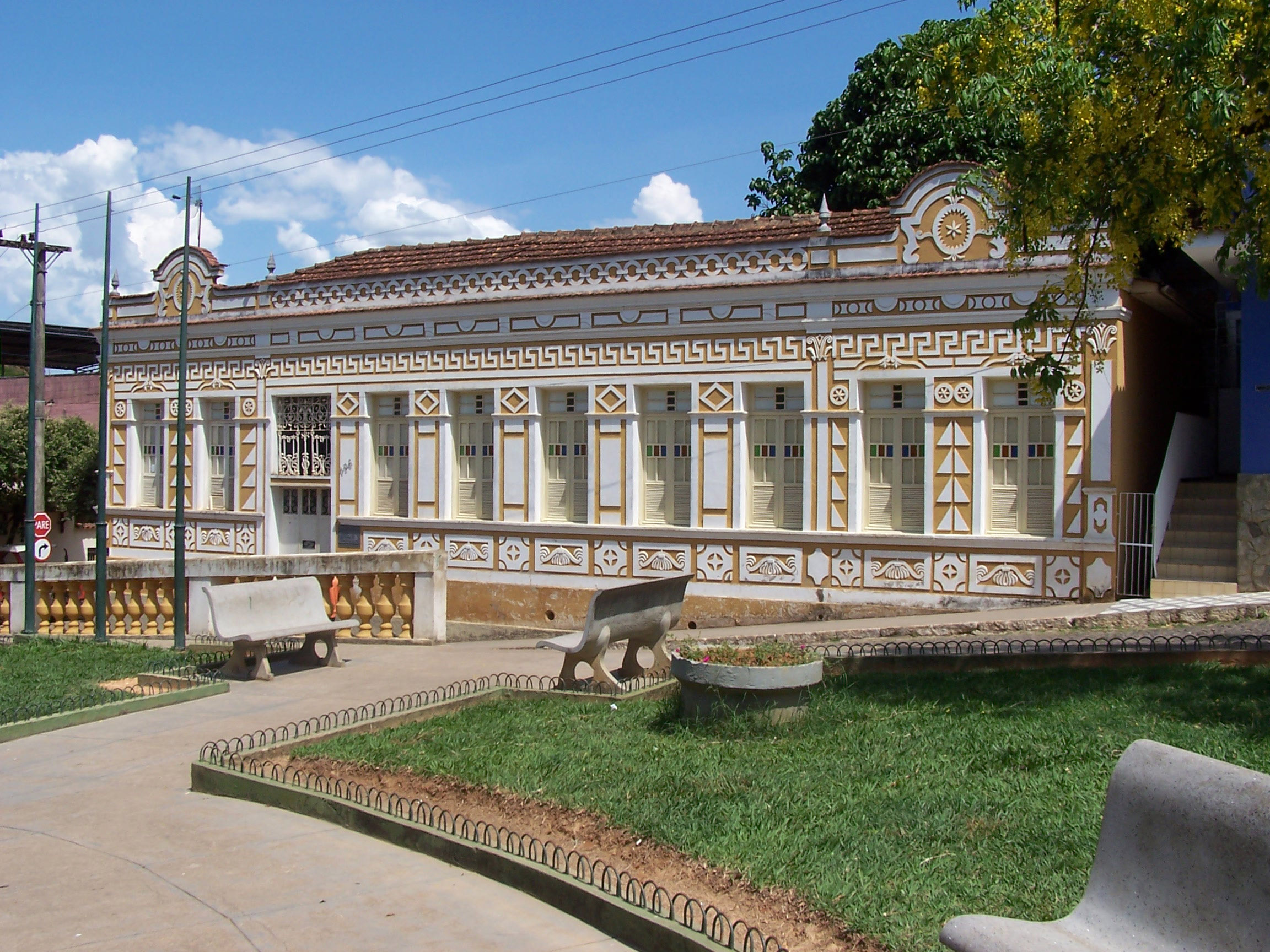 Municipality of Miraí, Minas Gerais, Brazil